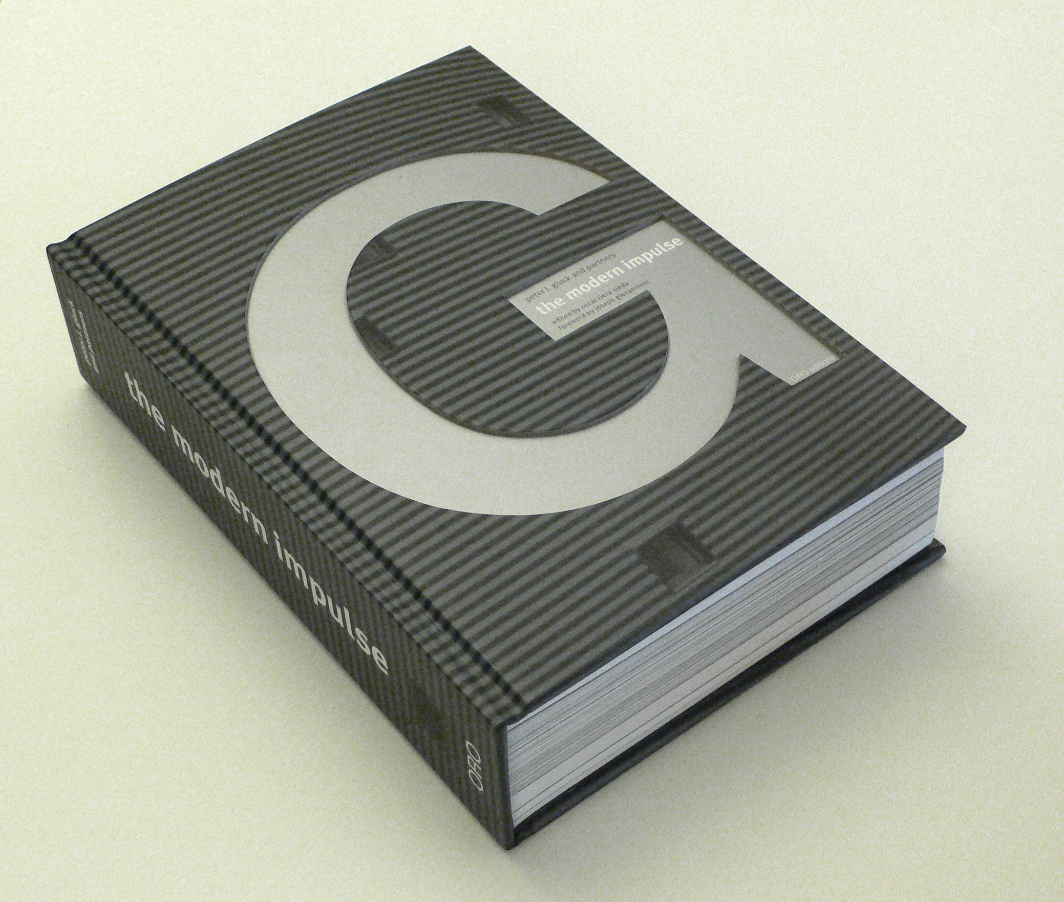 Peter L. Gluck's Monograph. 680 pp. Published by ORO Editions 2008.